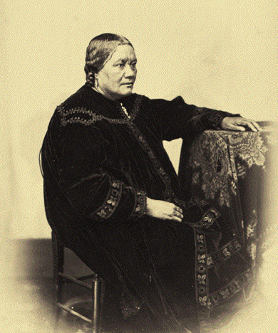 Queen Pōmare IV of Tahiti (1813-1877).